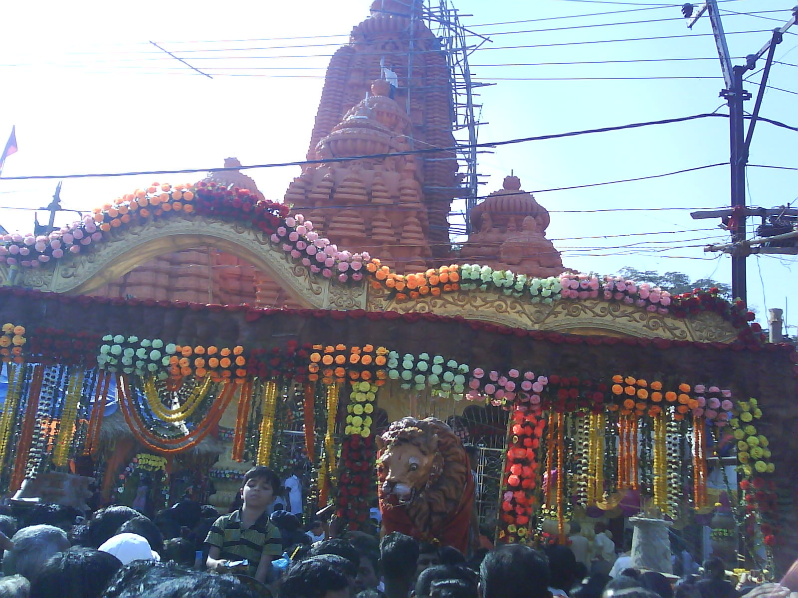 Maa Shyma Kali Temple, Bargarh